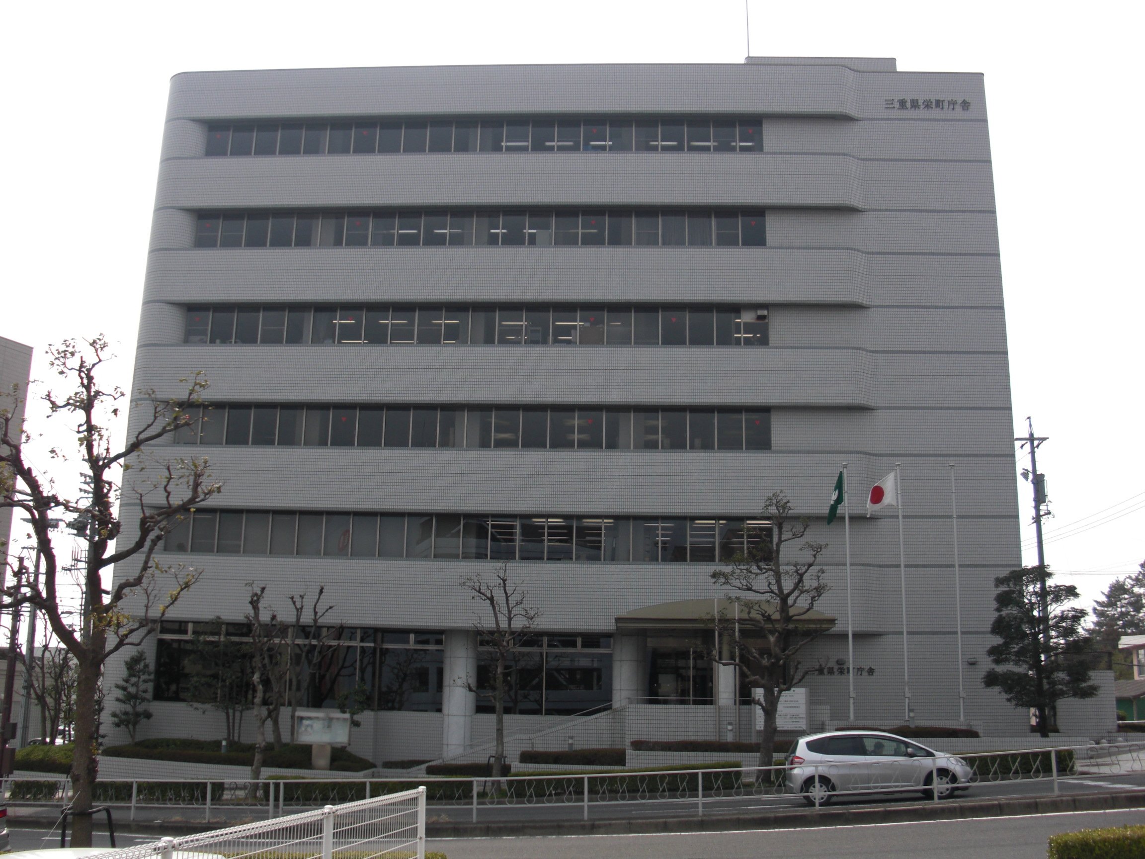 This is the Mie prefecture Sakaemachi Office, which is located in Tsu, Mie, Japan.